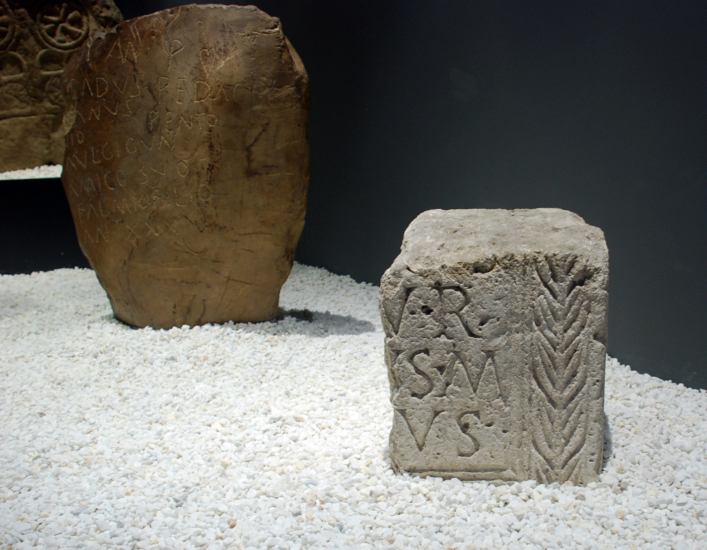 Museum of Prehistory and Archaeology of Cantabria. Stele from Peña Amaya (Burgos, Castile and León).